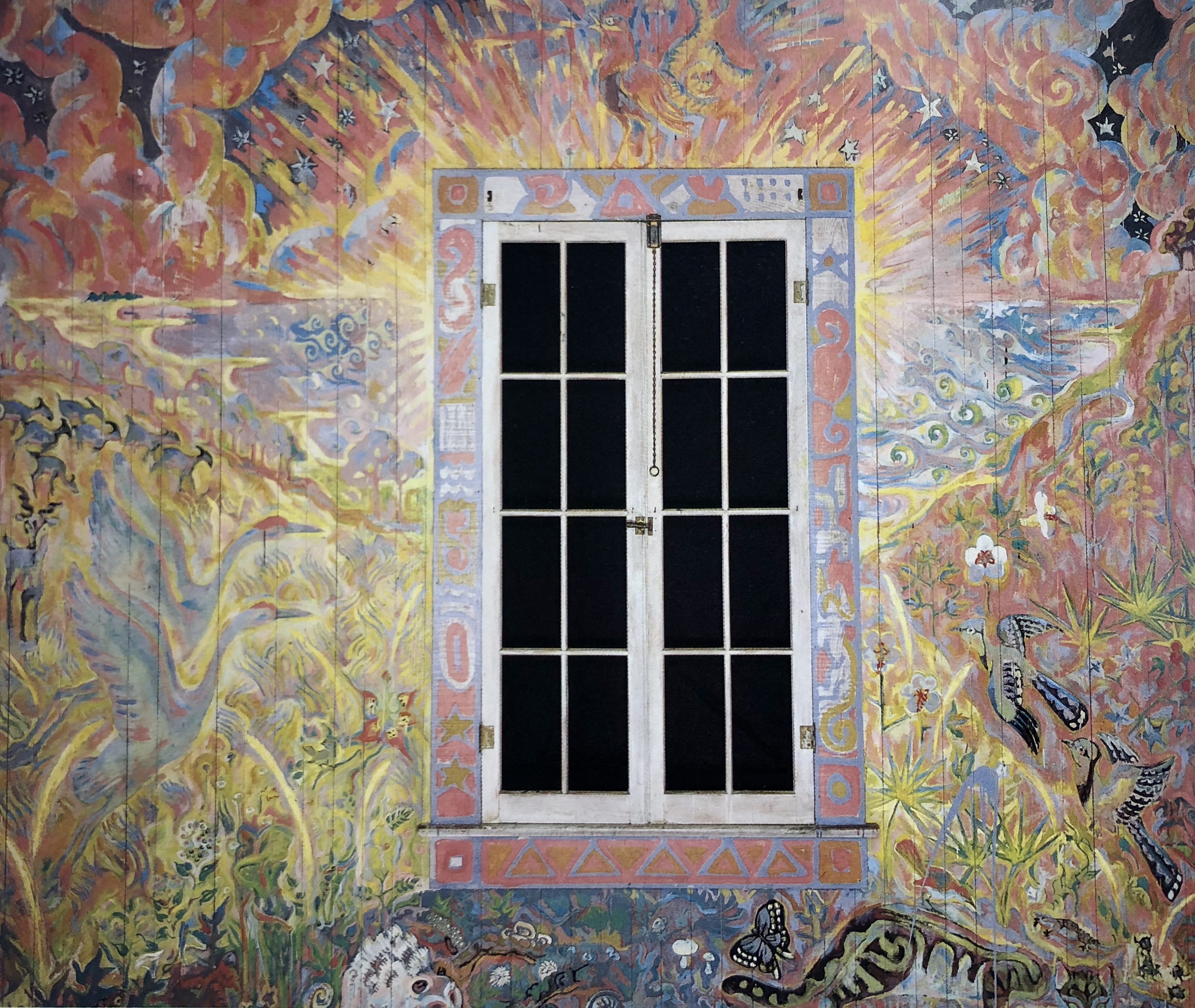 East Wall in Walter Anderson's Shearwater Cottage